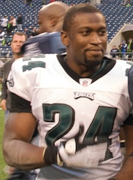 Philadelphia Eagles cornerback Sheldon Brown about to shake hands with Seattle Seahawks running back Maurice Morris (not shown) during the post-game on November 2, 2008 at Qwest Field.